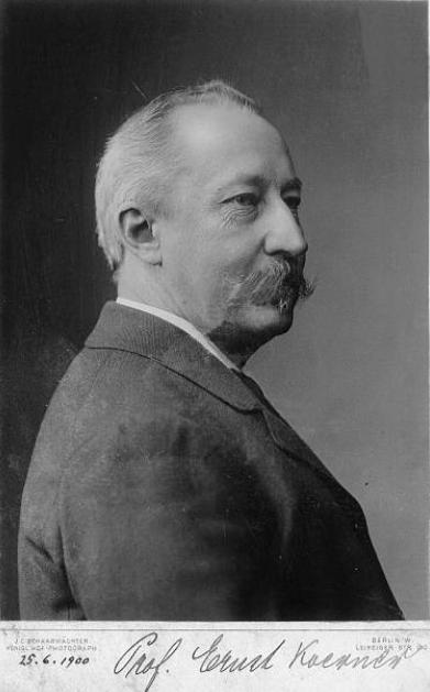 Professor Ernst Koerner. Photographie von J. C. Schaarwächter, Juni 1900